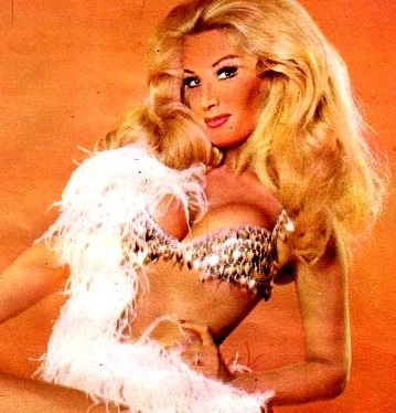 Norma Sebré- actriz y vedette argentina